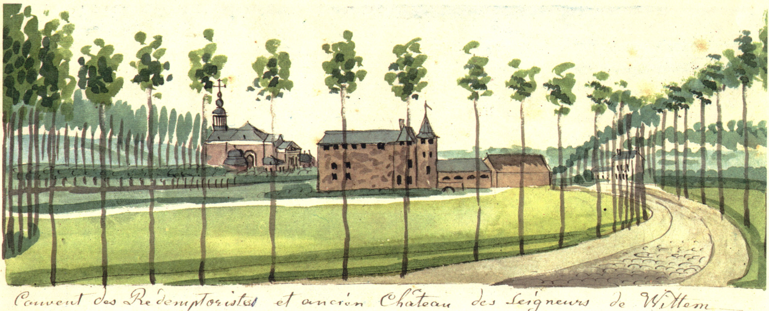 View of the convent and castle in Wittem, Limburg, the Netherlands. Drawing by Philippus van Gulpen (c 1840-60)